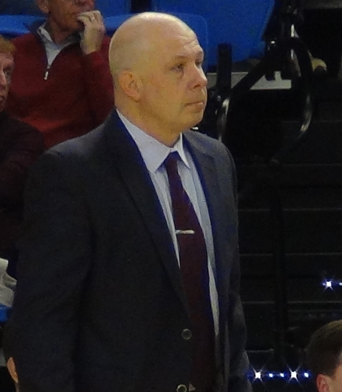 Herb Sendek coaches Santa Clara men's basketball during a game against San Jose State at the Event Center in San Jose, Calif. on Dec. 3, 2016.